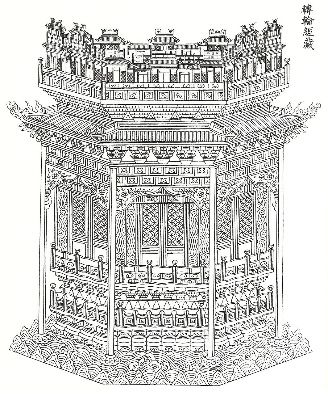 Picture of a revolving-Buddhist ark drawn by Li Jie and published in his Yingzao Fashi in 1103 CE, during the Song Dynasty. Sino-Judaic scholars believe the Kaifeng Jews used one of these to house their 13 Torah scrolls (12 in honor of the Twelve Tribes of Israel and 1 in honor of Moses). Picture taken from White, Chinese Jews, p. 74